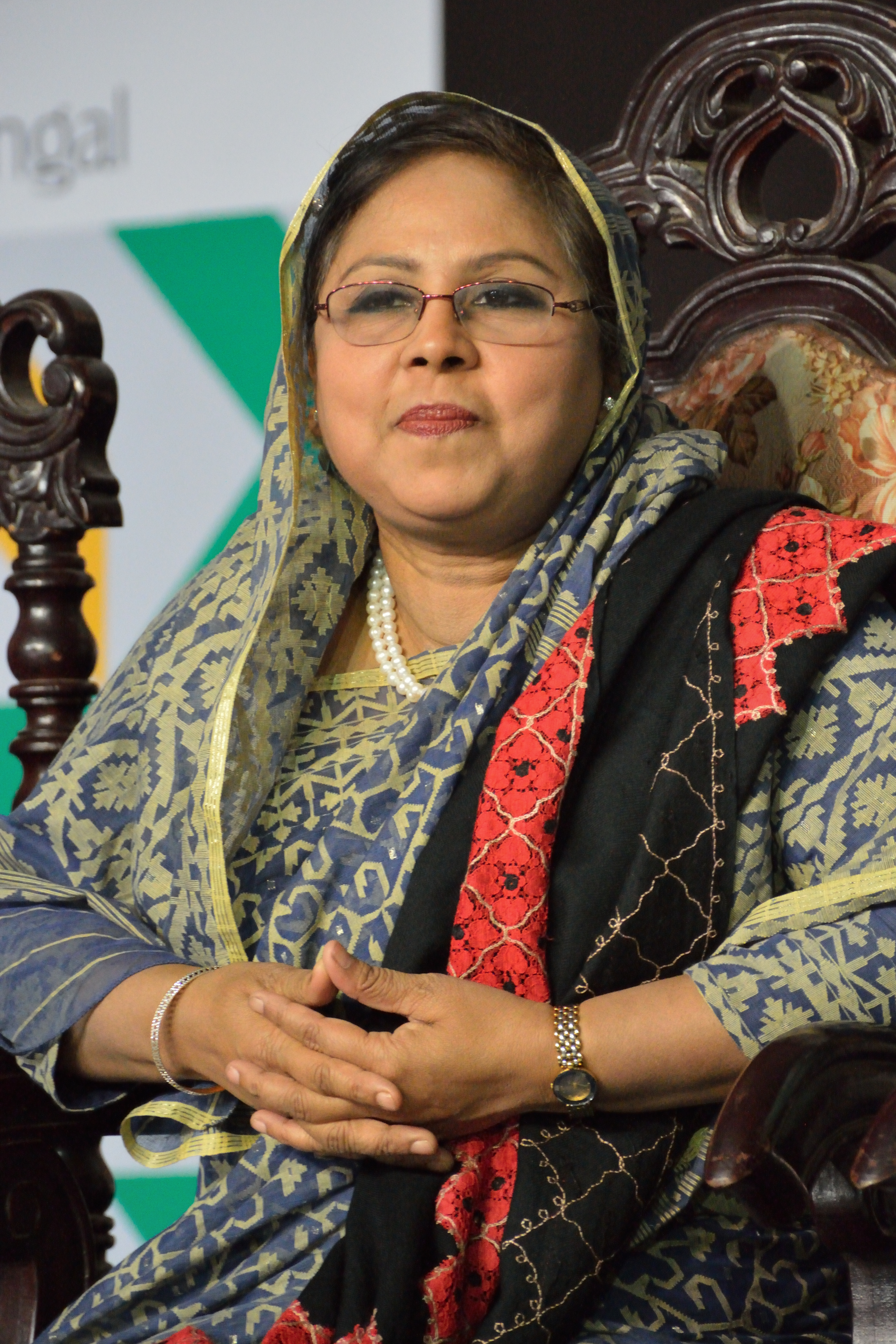 Photographed durintg the Indo-Bangla seminer: 'Bangaliyana O Baisbikata' (En: Bengali echoes and the Global Perspective) at the 40th International Kolkata Book Fair at Milan Mela Complex, Kolkata.